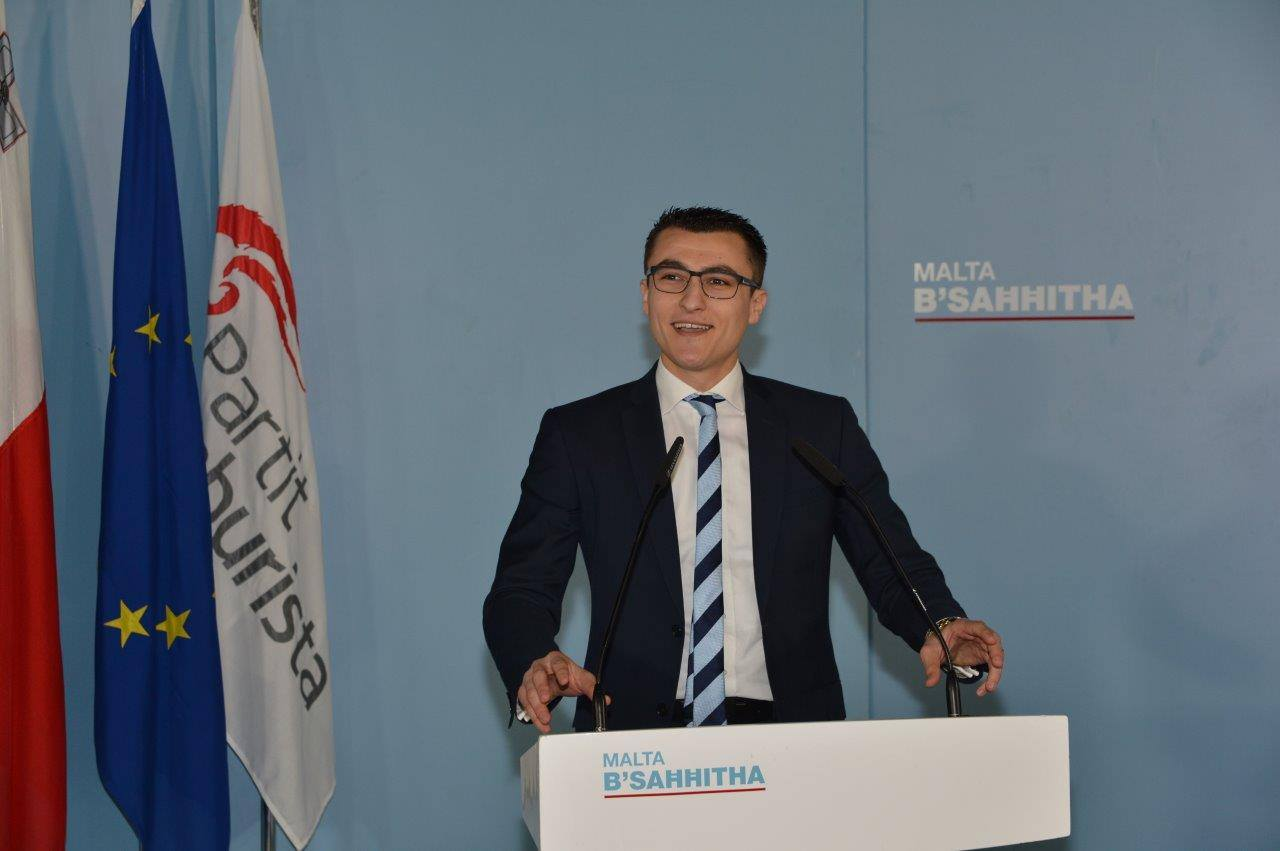 24.01.16 Malta b'Sahhitha